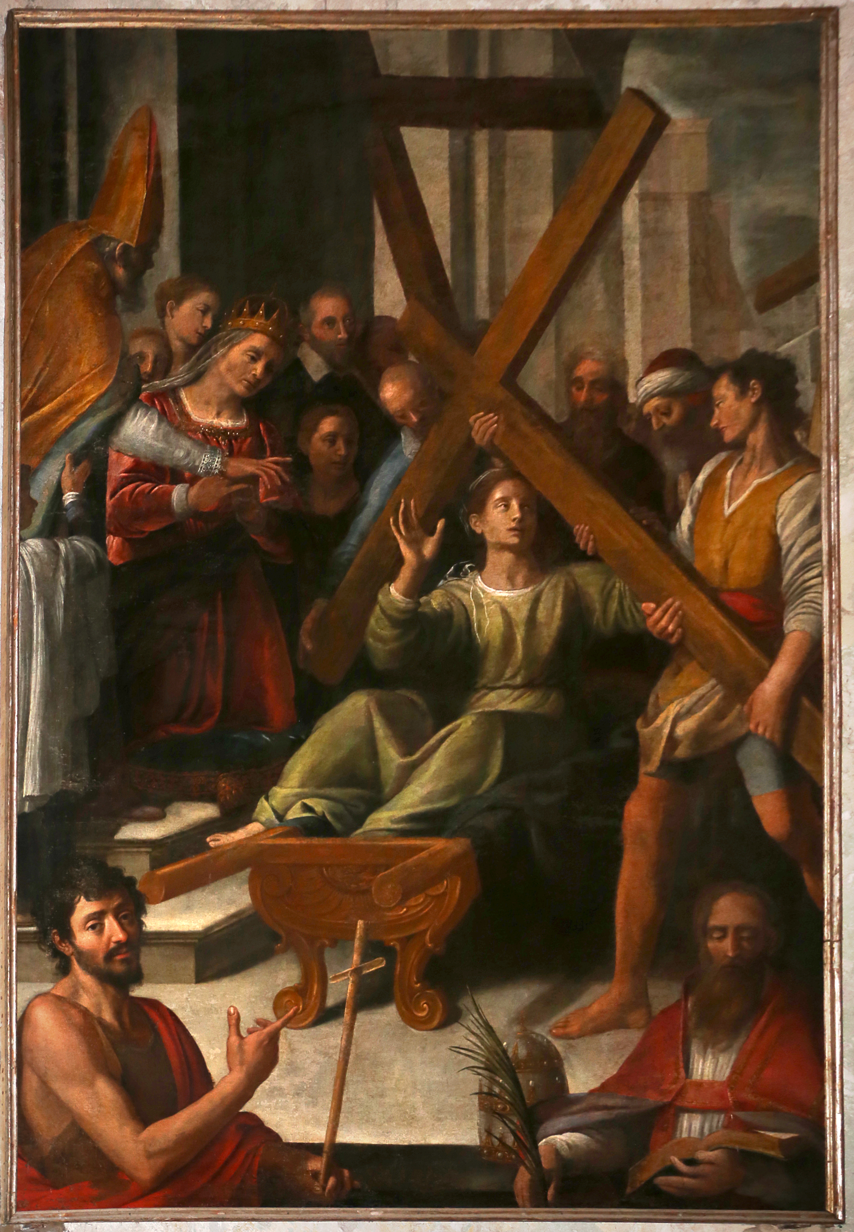 San Marcello (San Marcello Pistoiese)